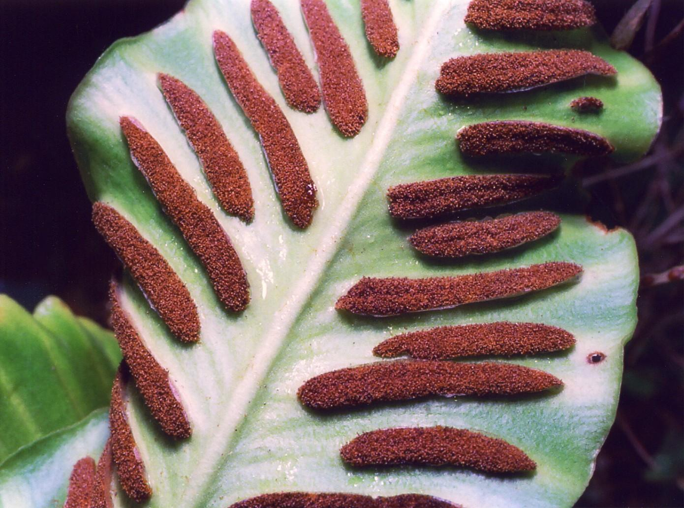 Asplenium scolopendrium; bottom side of a leaf.